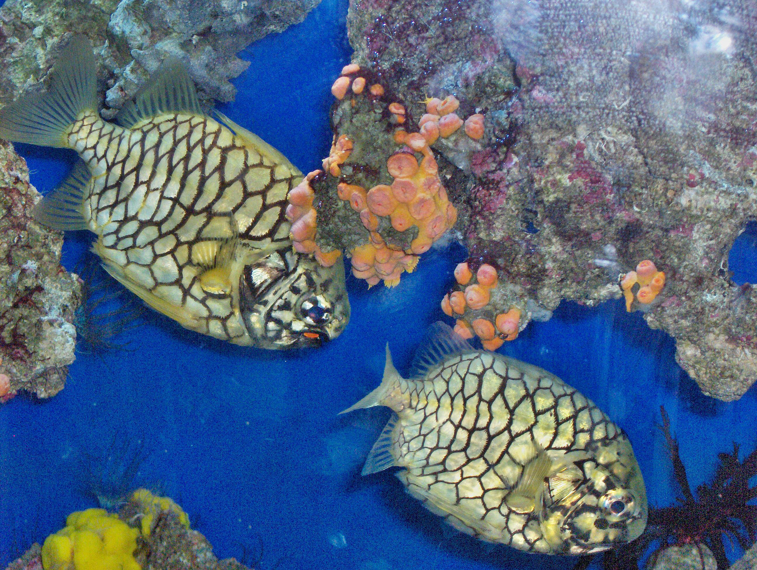 Pineconefish (Monocentris japonica); Musée Océanographique de Monaco